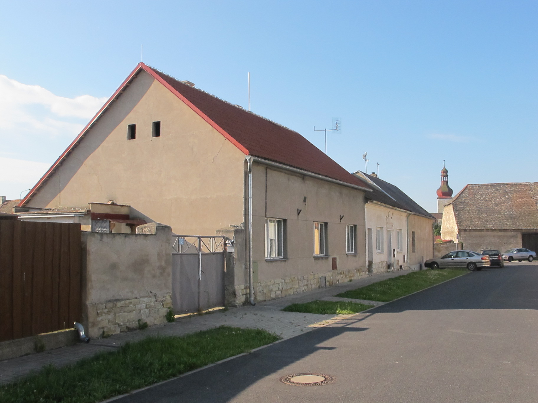 Birthplace of painter Jan Křížek in Dobroměřice (Czech Republic)